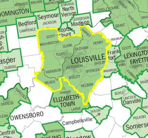 This is a representation of the Louisville-Jefferson County, KY-IN Metropolitan Statistical Area. I created this image using a U.S. Census Bureau map image from Metropolitan and Micropolitan Statistical Areas Wall Maps: November 2004. As this image was originally generated by the U.S. federal government, it is considered to be public domain.